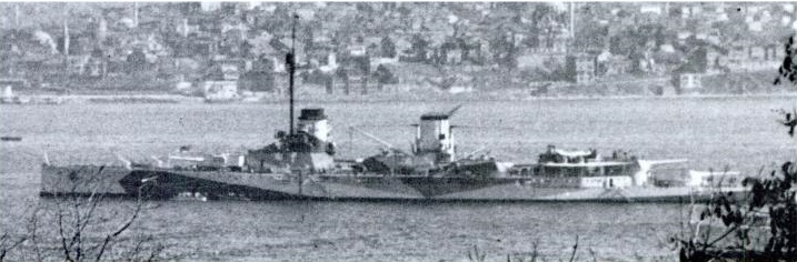 The Turkish battlecruiser Yavuz off Istanbul, Turkey, 5-9 April 1946.